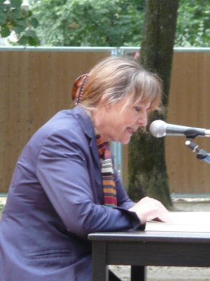 german author Ulrike Kolb at the Erlanger Poetenfest 2009